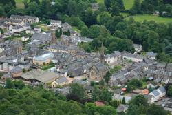 Callander from the Crags